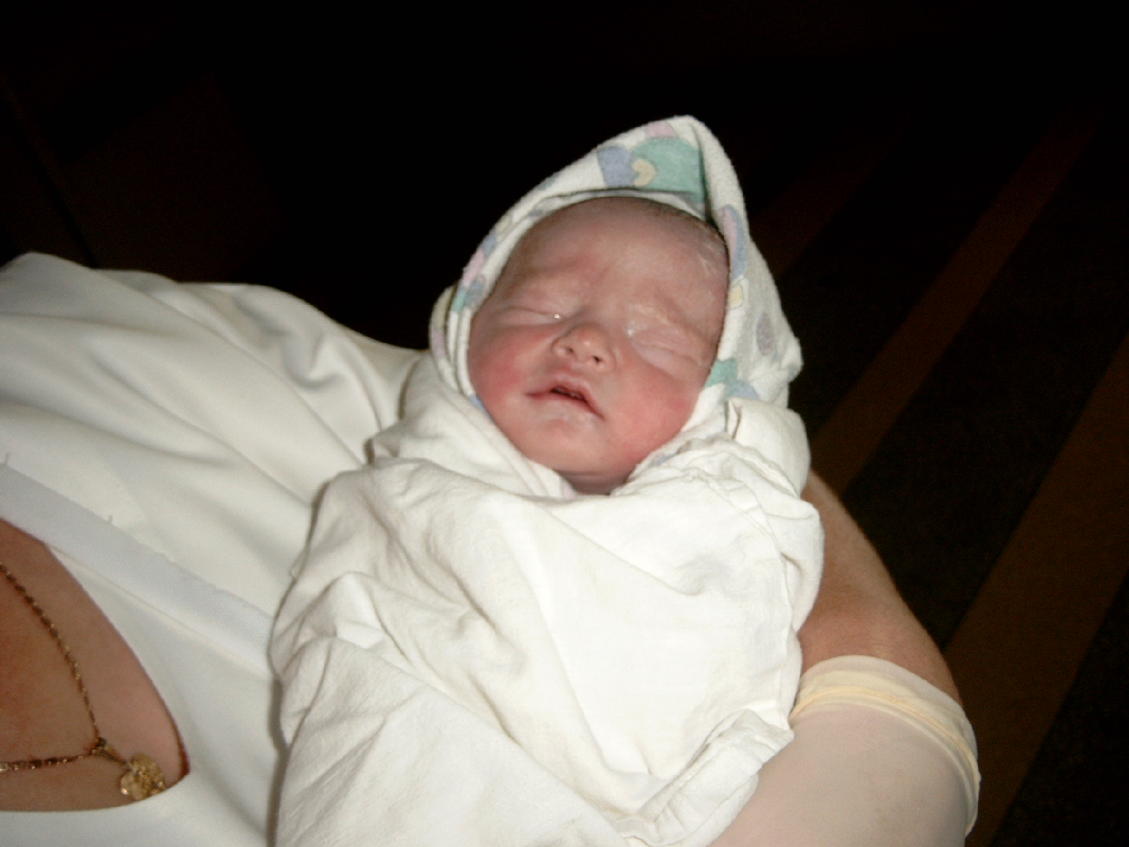 Full-term newborn a few minutes after delivery. Traces of vernix caseosa are observable.